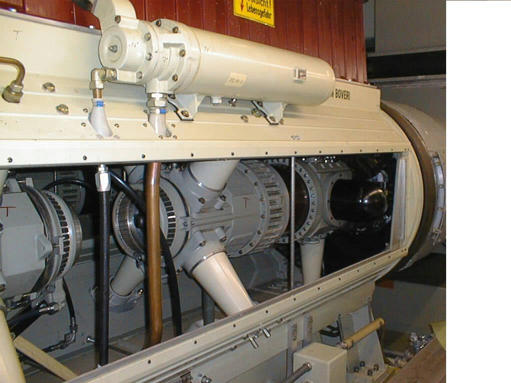 high-current switch of a 27 kV generator in the Krümmel Nuclear Power Plant